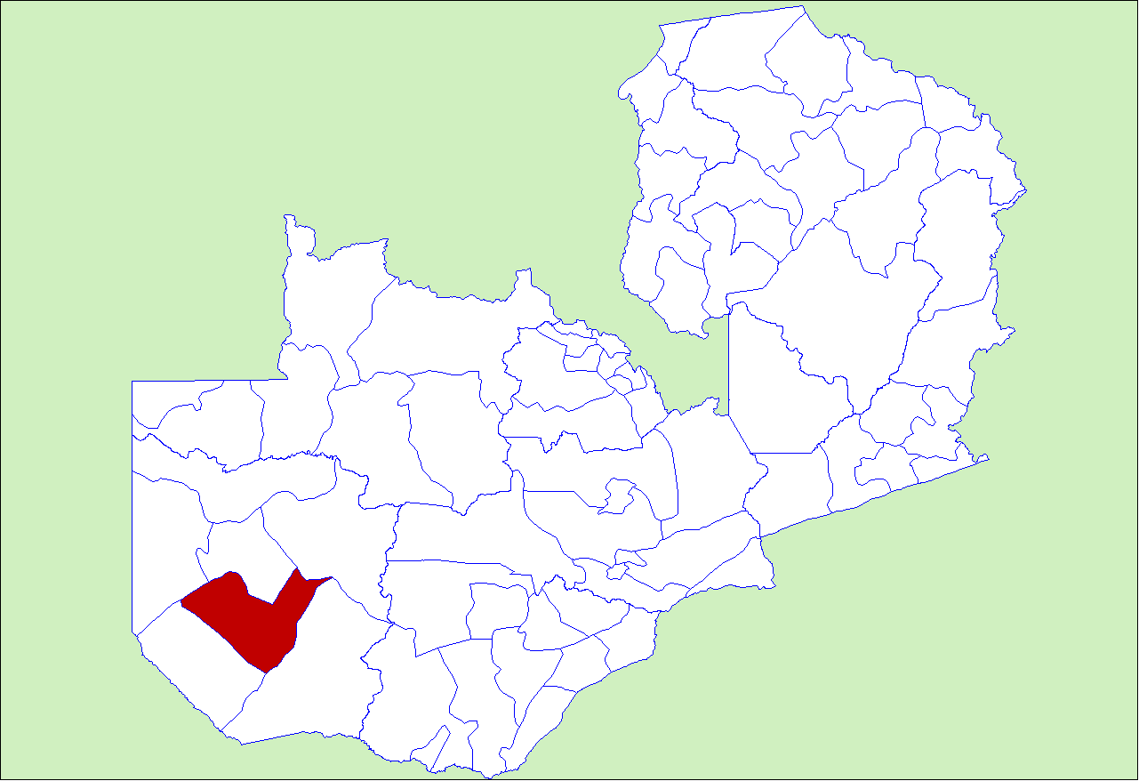 District locator in Zambia